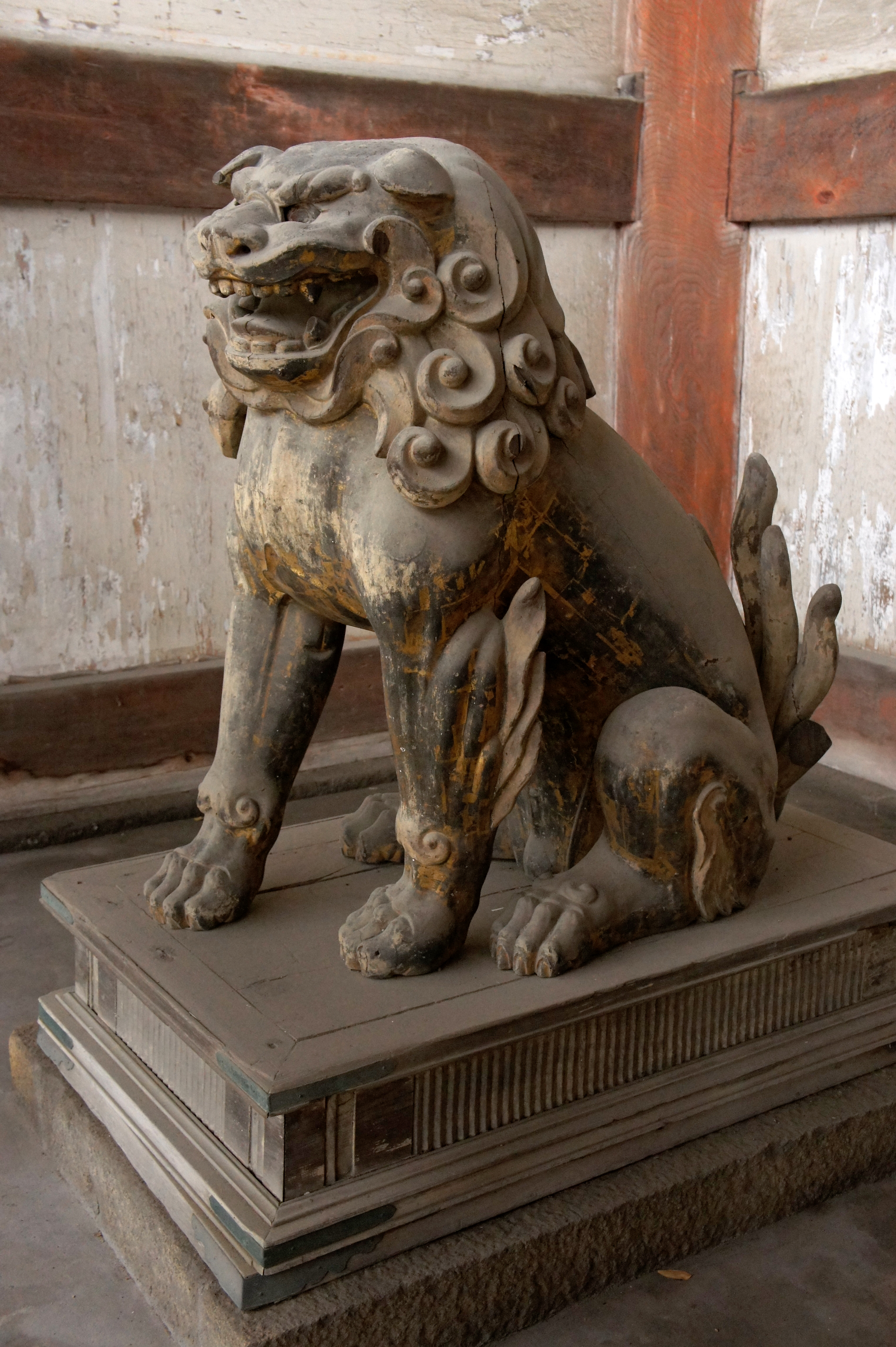 Ninna-ji's Nio Gate in Ukyō-ku, Kyoto, Kyoto Prefecture, Japan. Ninna-ji was registered as part of the UNESCO World Heritage Site "Historic monuments of ancient Kyoto".